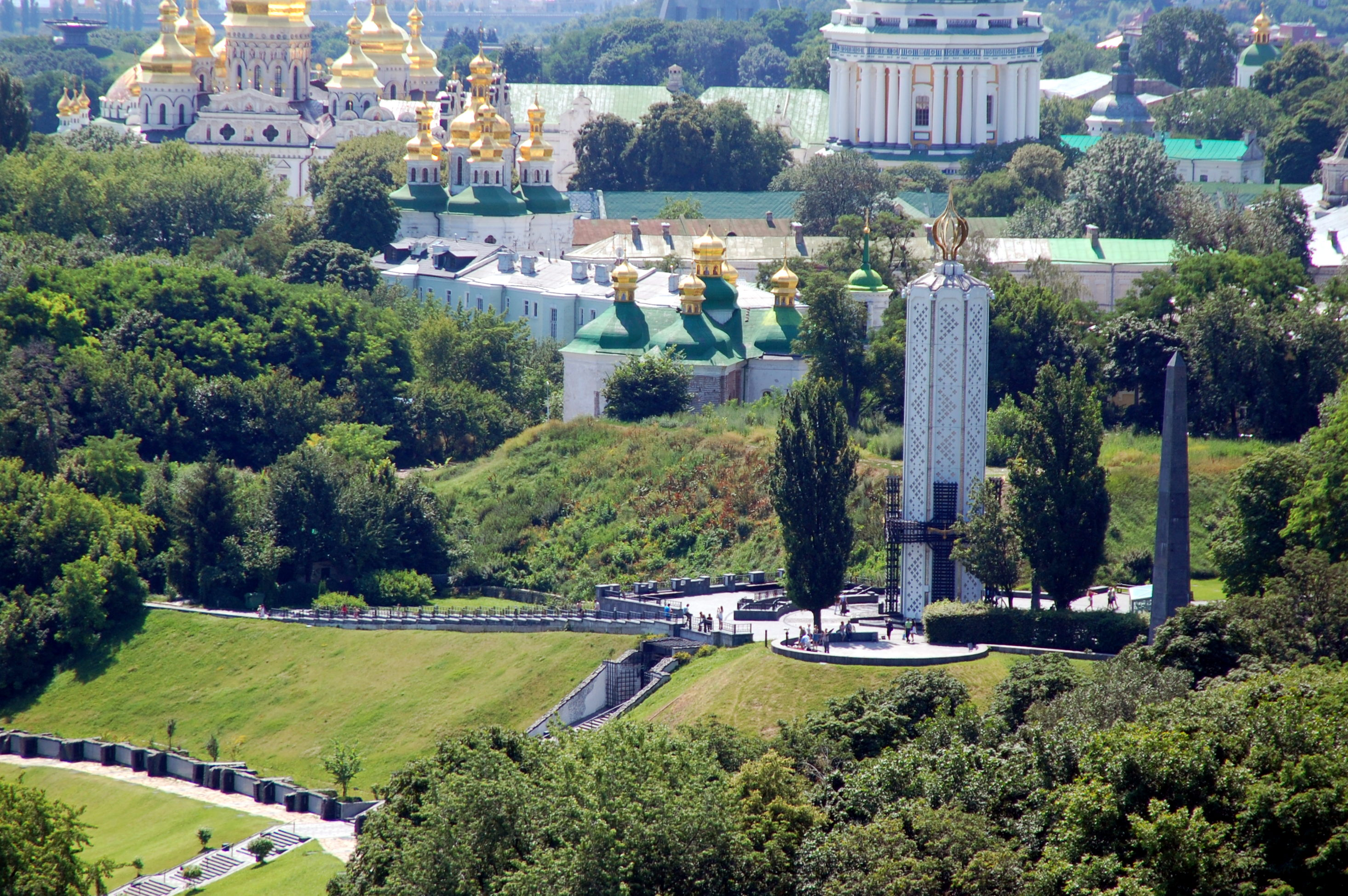 Holodomor Memorial Kyiv - view from above